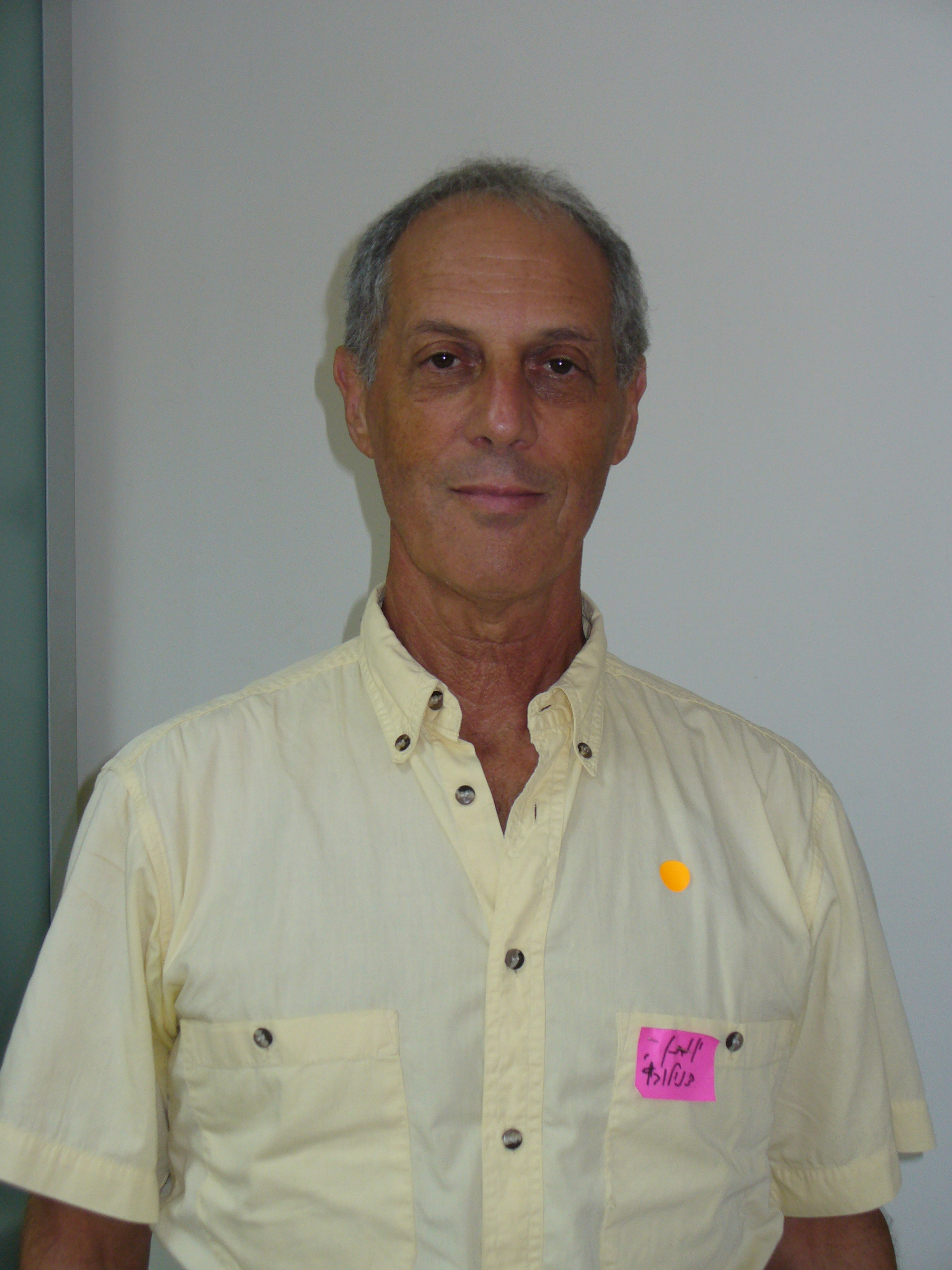 Picture taken at 2009 Annual of Tehila